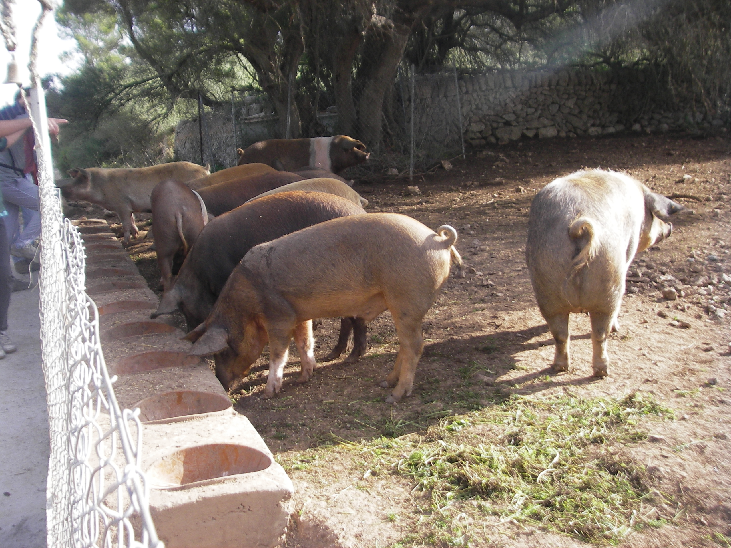 Make by Joan the 12 october 2005 in Manacor